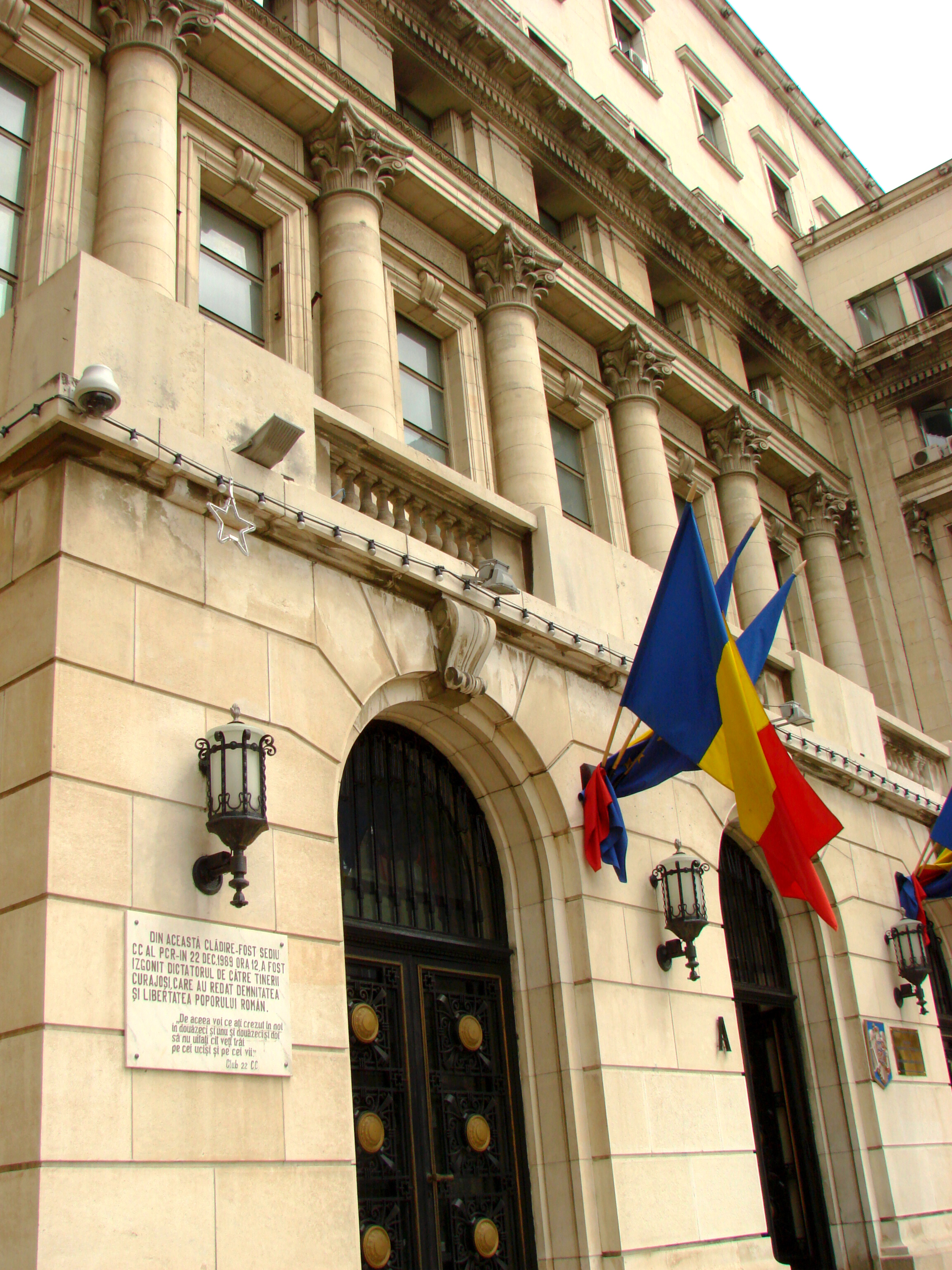 From this balcony on what was then the building of the Central Committee of the Communist Party, Nicolae Ceausescu gave his final speech, on December 21, 1989, denouncing the rebellion that had broken out in Timisoara in the west of the country. The crowd booed him down, and he was forced to flee in a helicopter from the rooftop. Security forces then fired into the crowd, killing dozens. The plaque at bottom left commemorates the youthful martyrs who "drove out the dictator." Altogether, some 1,500 people died in the Romanian revolution of 1989.